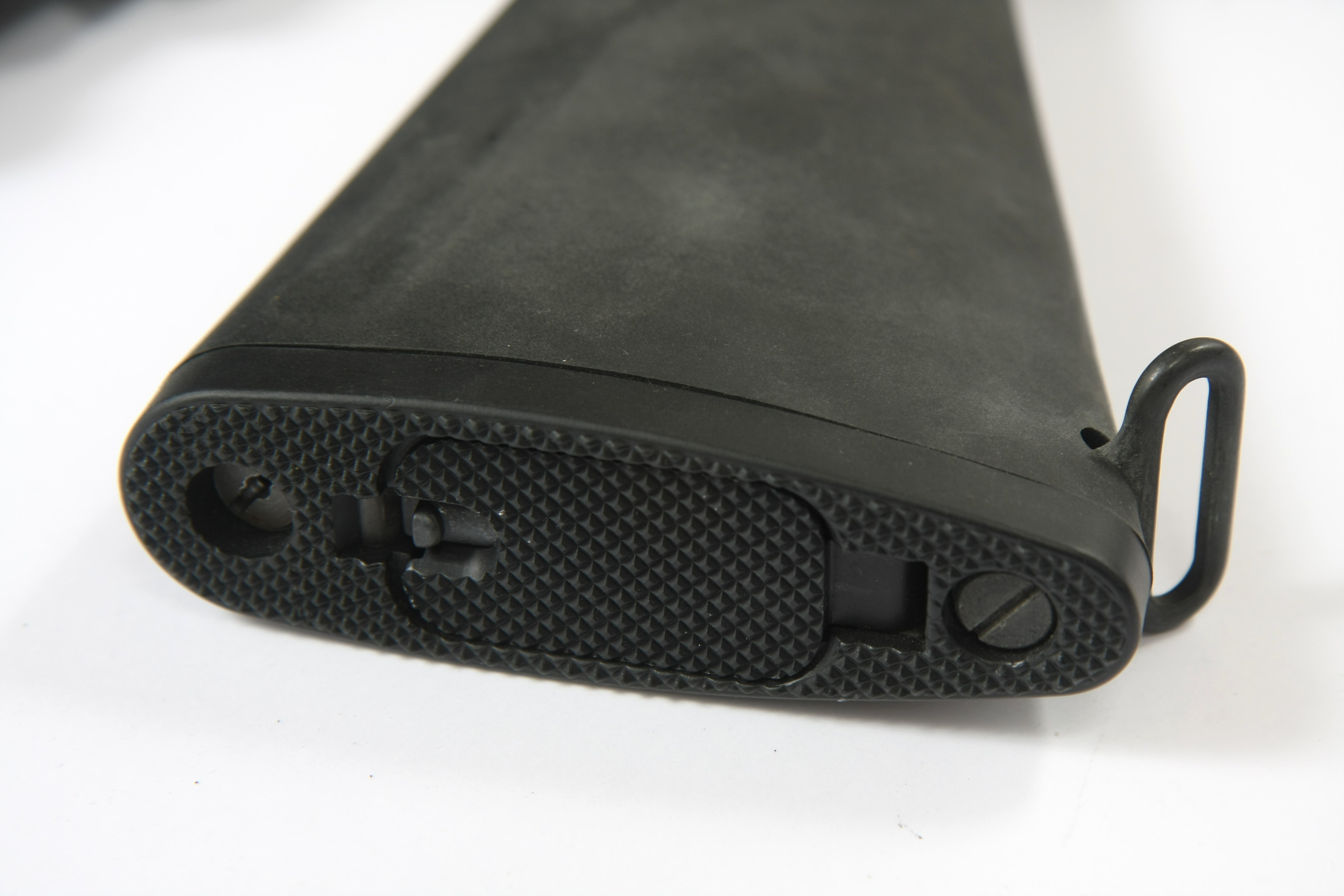 Stock butt plate Pre-ban Colt AR-15 Sporter Lightweight rifle.